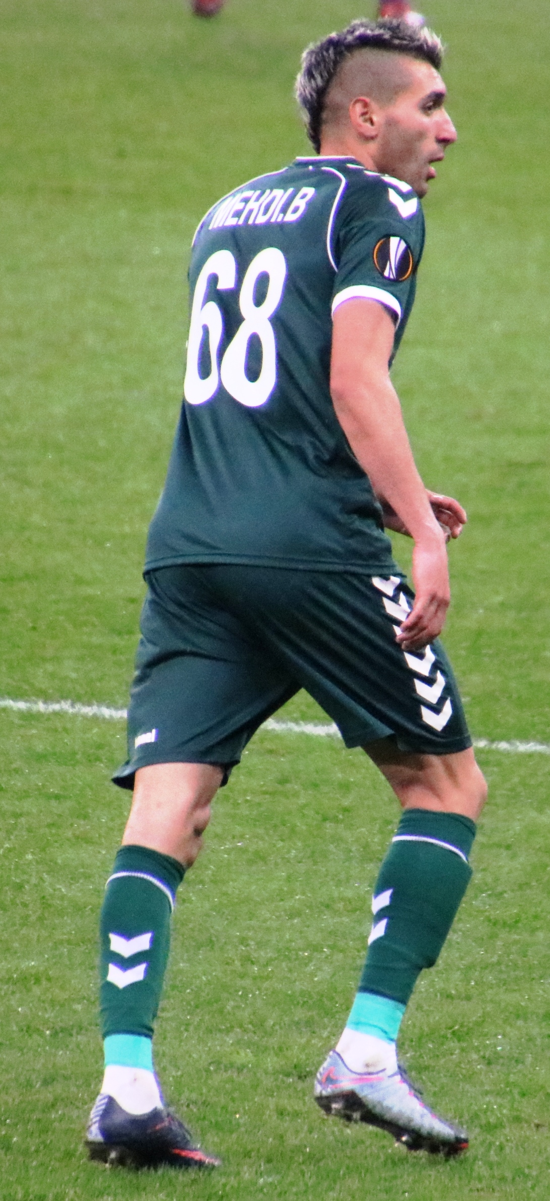 UEFA Euro League Group I 4th round